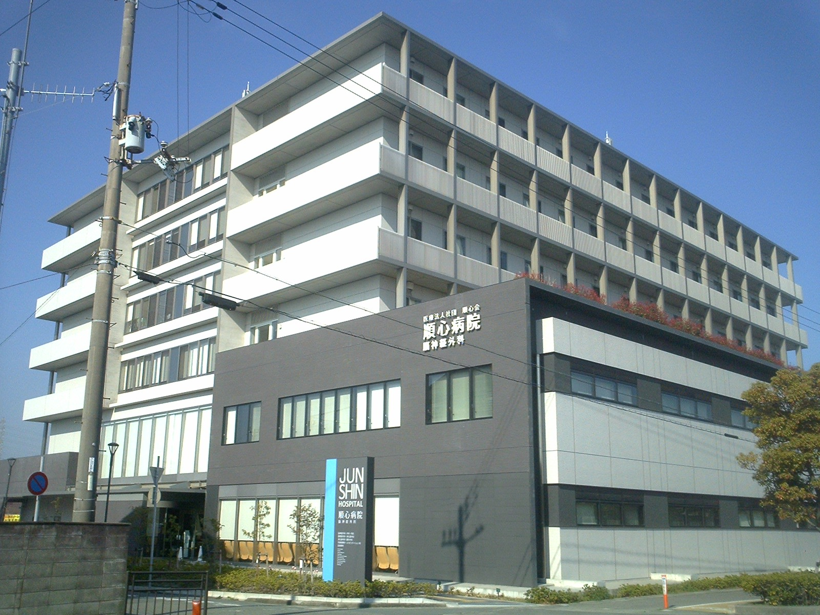 This is a photograph of the Junshin Hospitan on a shiny day.